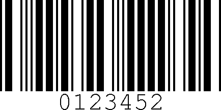 Code 11 barcode containing "0123452". Created using Barcode Writer in Pure PostScript.